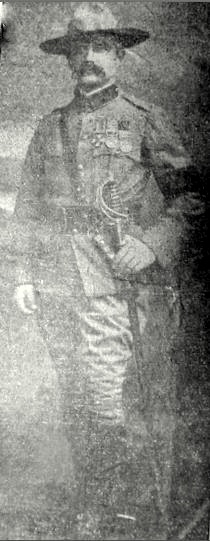 Burnham receives his D.S.O. from the King